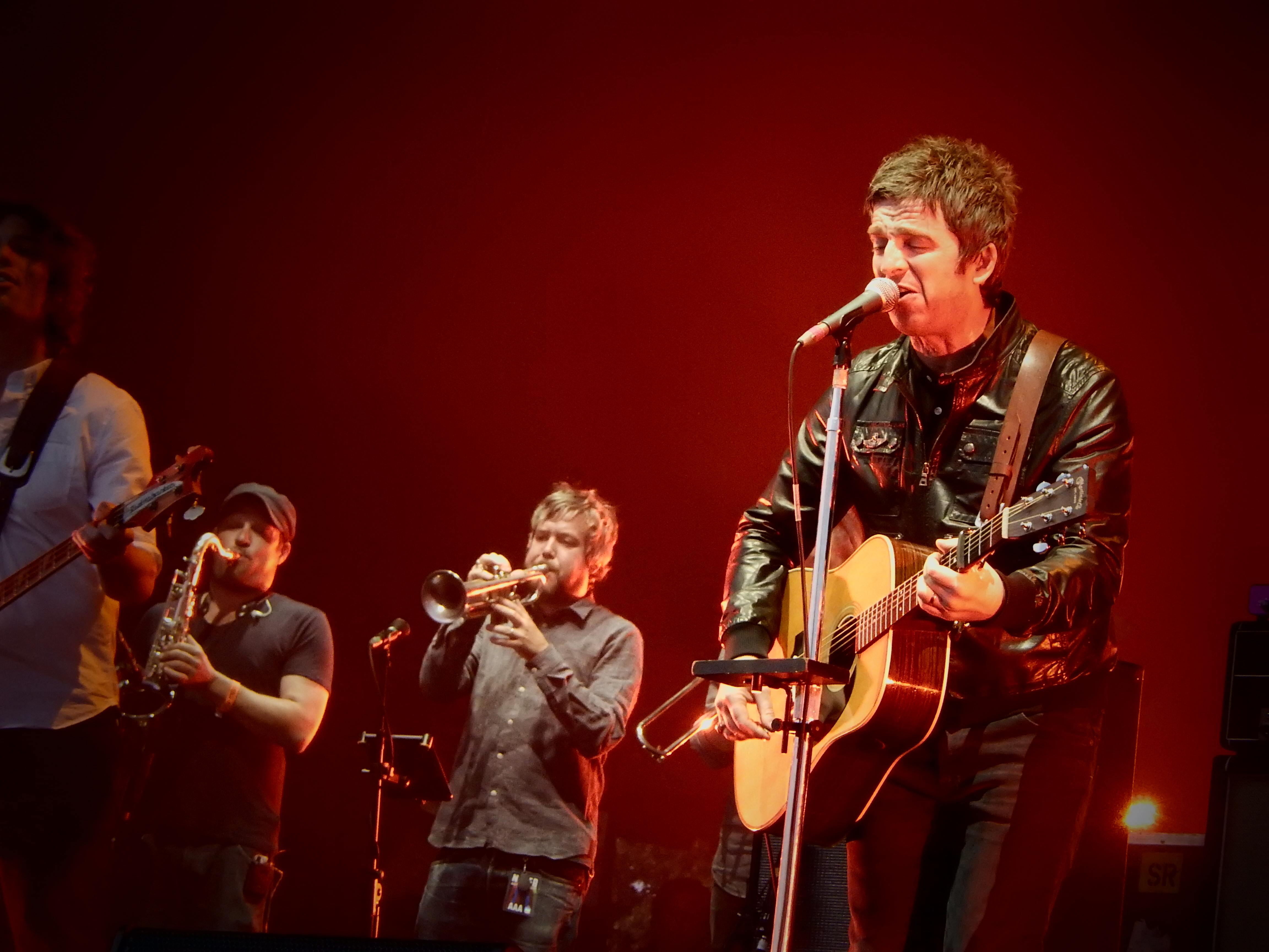 Noel Gallagher's High Flying Birds, Clapham Common, Calling Festival, London